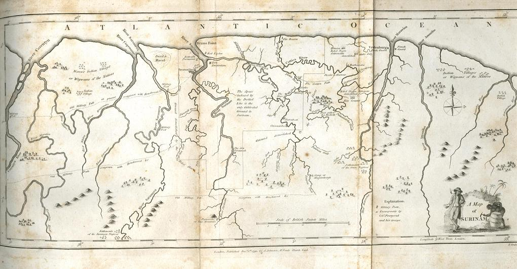 John Gabriel Stedman's original map of Surinam.